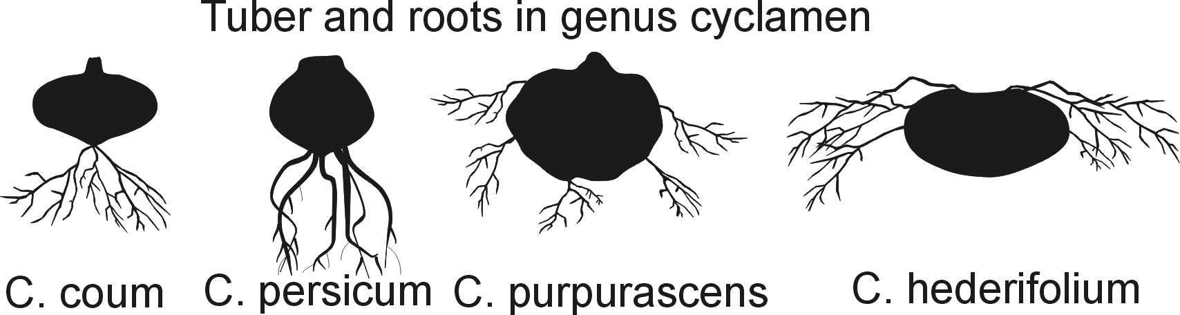 Tuber and roots in genus cyclamen. Inspired by Christian Grunert, Das Grosse Blumenzwiebelbuch, Deutscher Landwirtschaftsverlag, Berlin 1990.